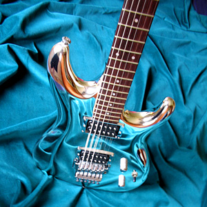 Ibanez JS10th 416 of 506